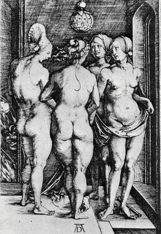 "The Four Witches", print of an engraving by Albrecht Dürer.